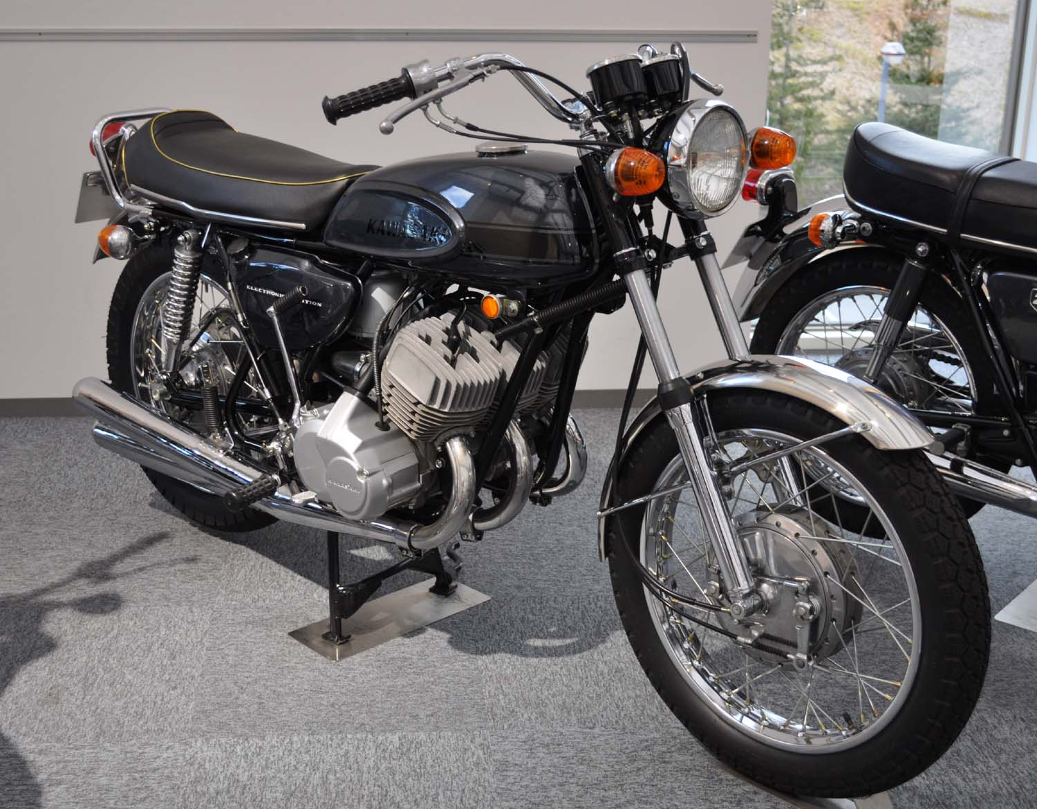 Kawasaki 500SS Mach III H1 (1970)